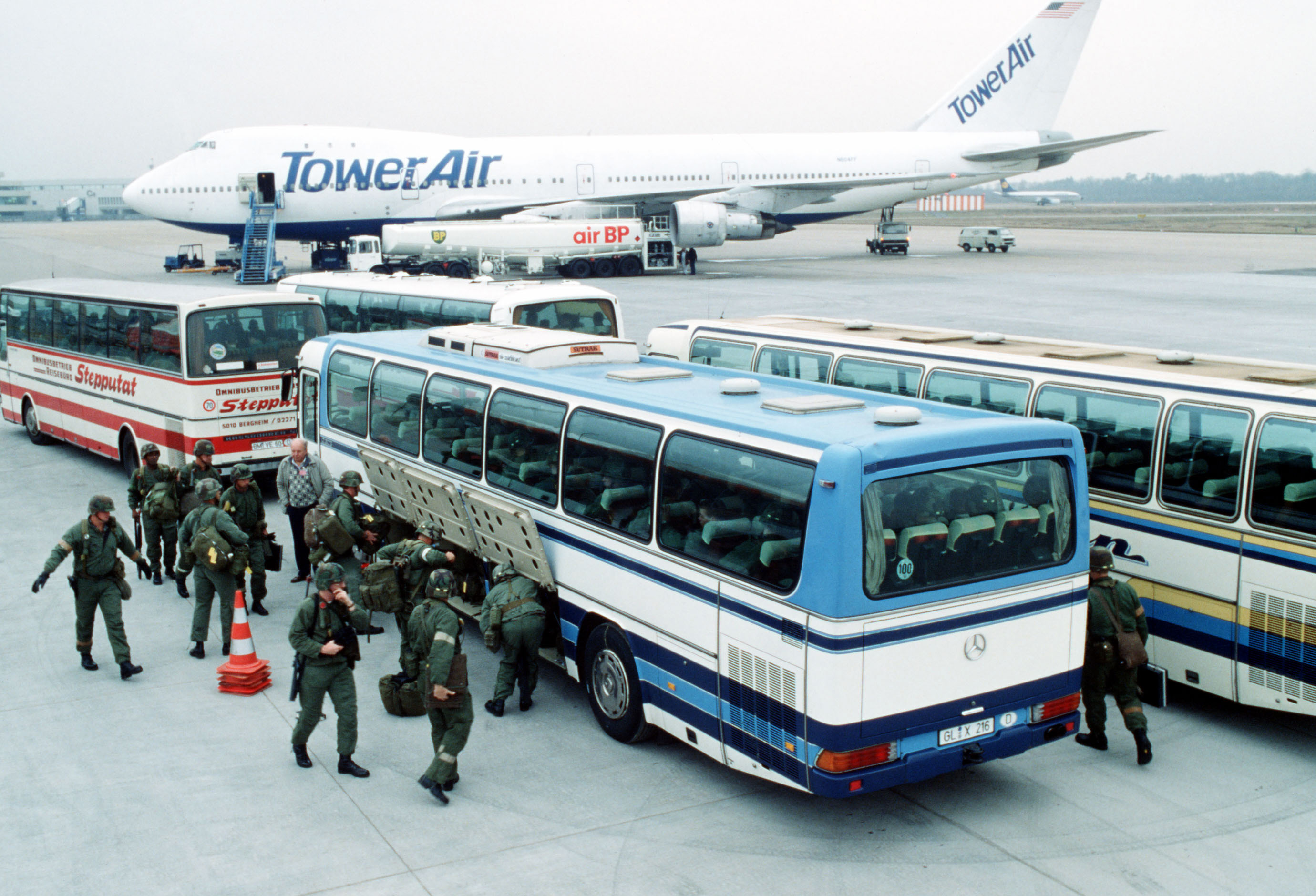 Members of the 2nd Armored Division load their baggage aboard commercial buses at Köln/Bonn International Airport prior to boarding the vehicles for transport during exercise REFORGER '90.